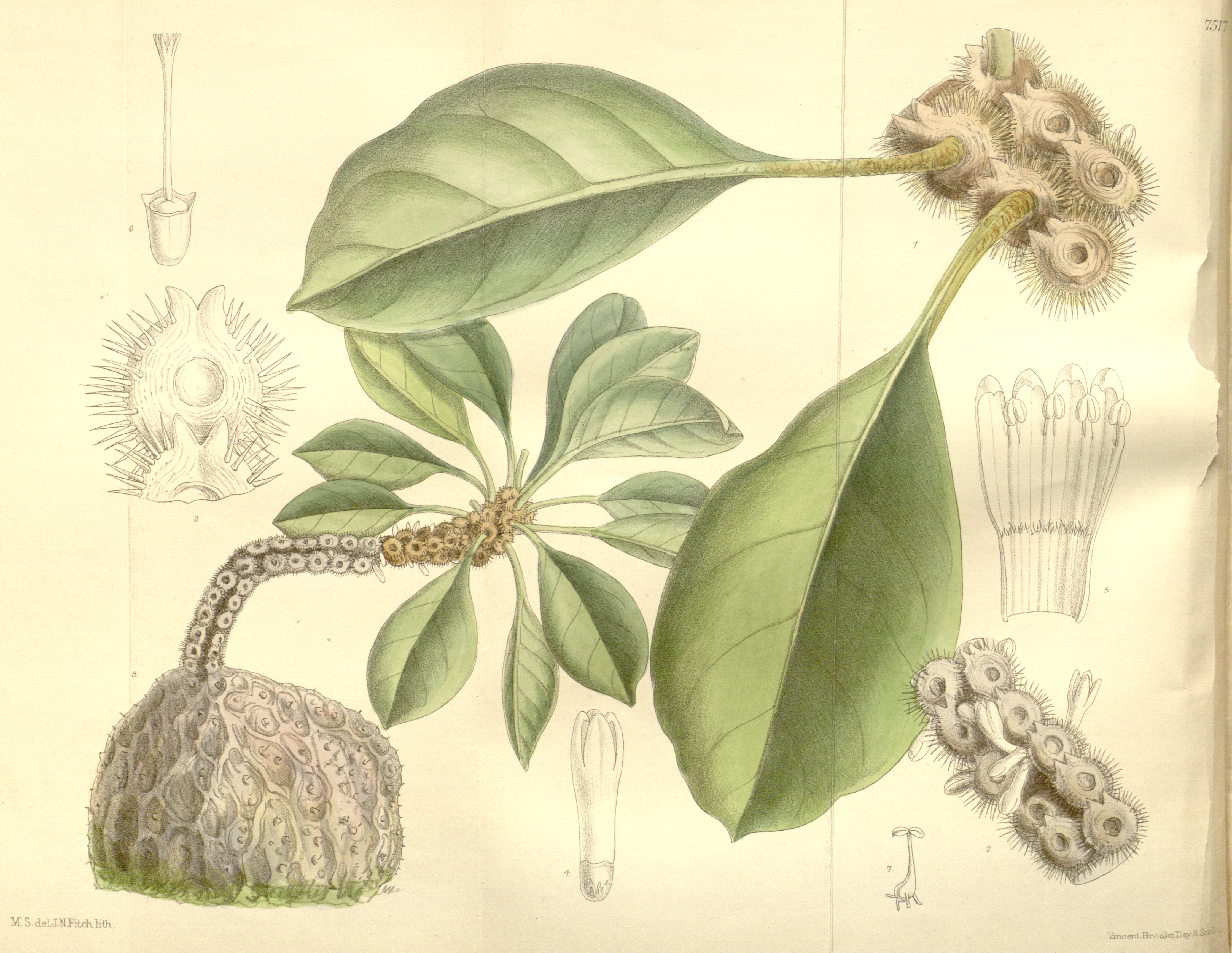 Myrmecodia platytyrea subsp. antoinii